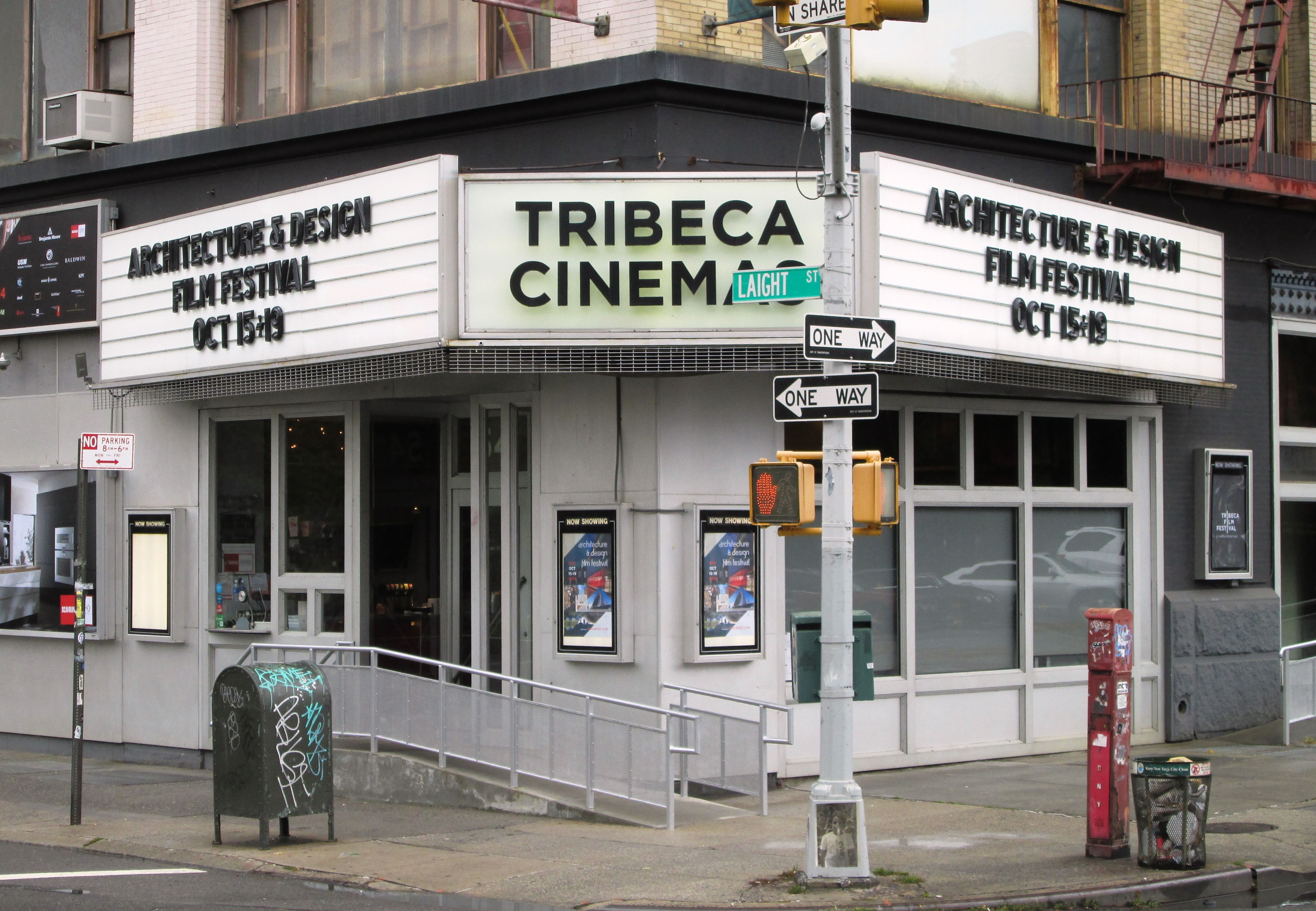 The Tribeca Cinemas, at 54 Varick Street at the corner of Laight Street in the Tribeca neighborhood of Manhattan, New York City, was founded in 2003 by Robert DeNiro to be one of the venues of the Tribeca Film Festival, was founded in 2001. The building dates from c.1900.